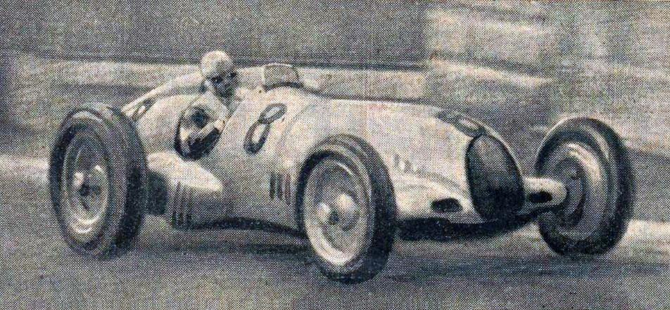 Rudolf Caracciola in Mercedes-Benz W25K (K="kurz" i.e. short) at GP Monaco on 13 April 1936 which he won.[1]